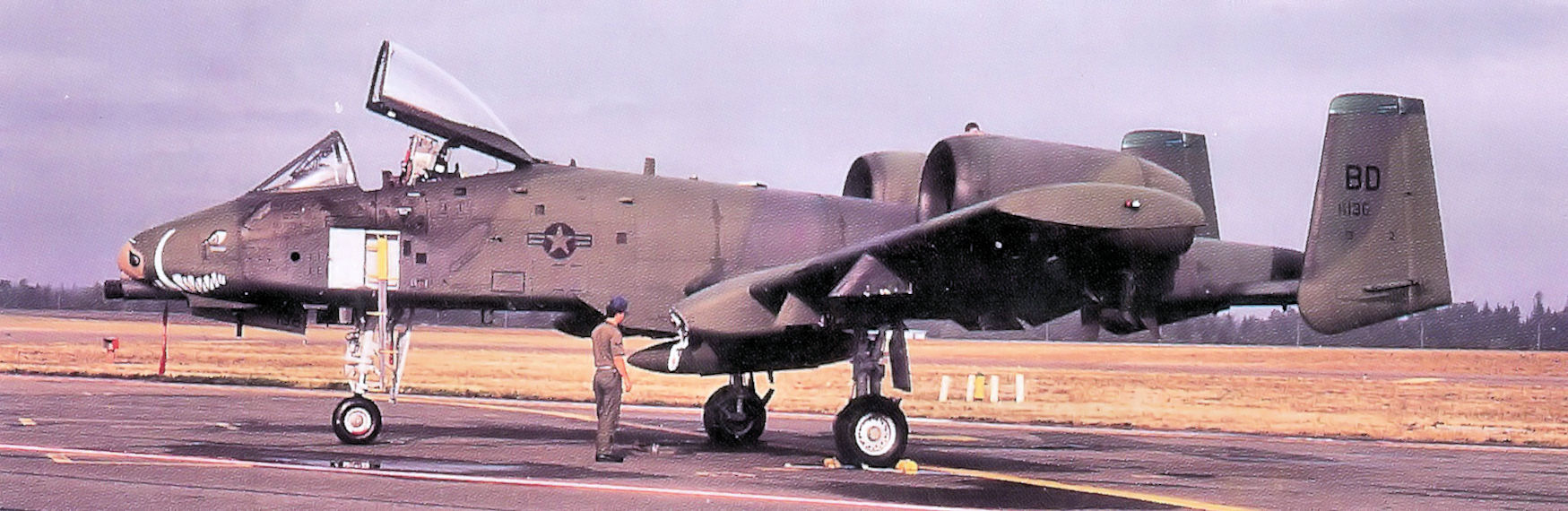 46th Fighter Training Squadron Fairchild Republic A-10A Thunderbolt II 79-0136